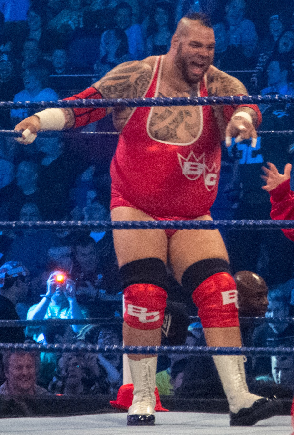 Brodus Clay at the WWE SmackDown tapings on 17 April 2012.